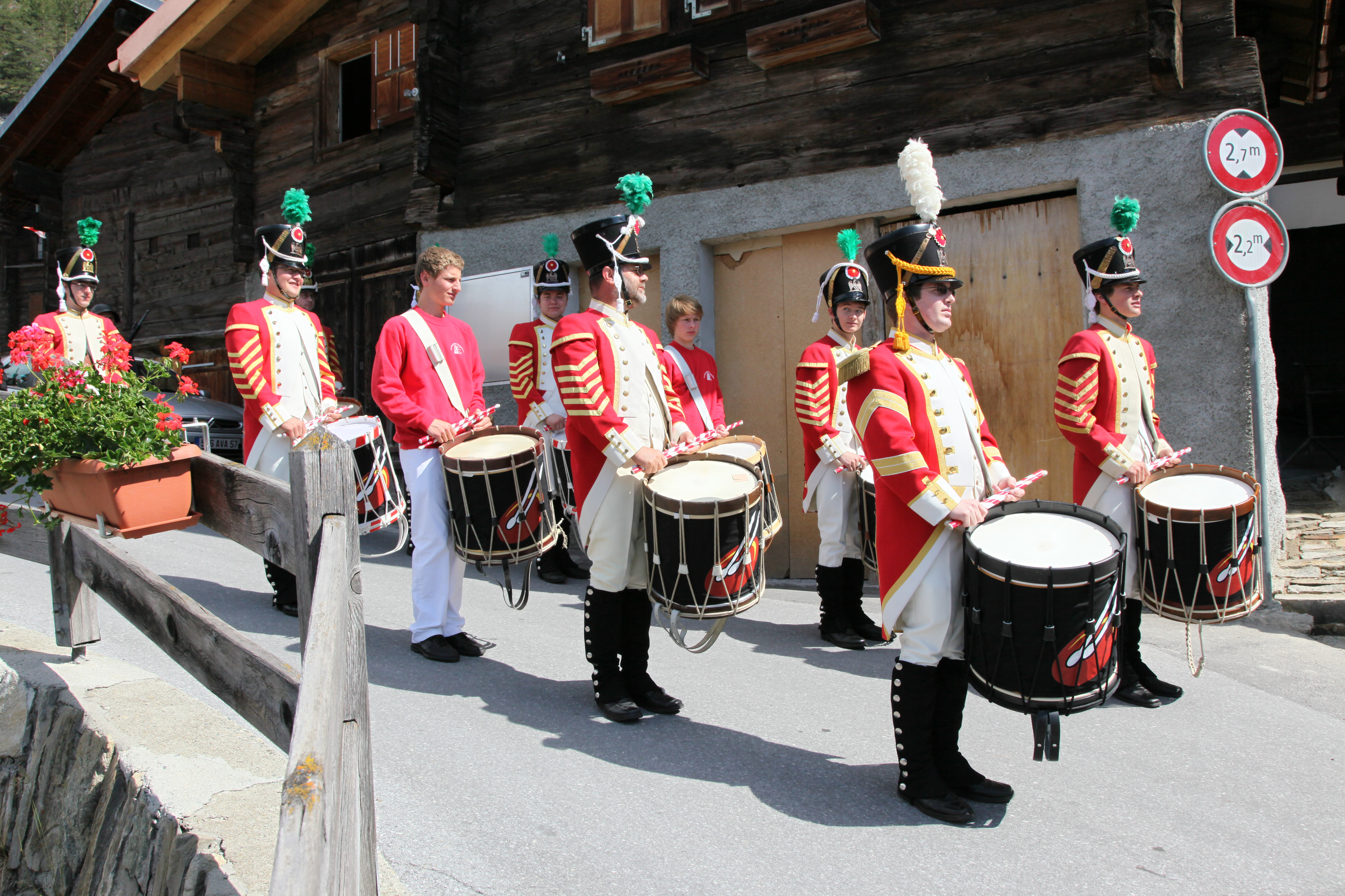 Feast of Corpus Christi at Erschmatt, municipality Leuk in the canton of Valais in Switzerland.